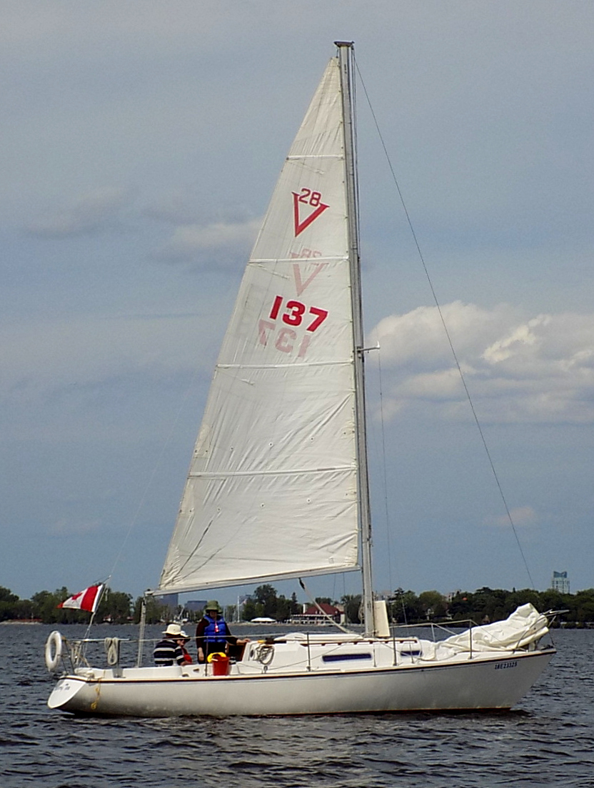 A Viking 28 sailboat named Blueberry Tea.